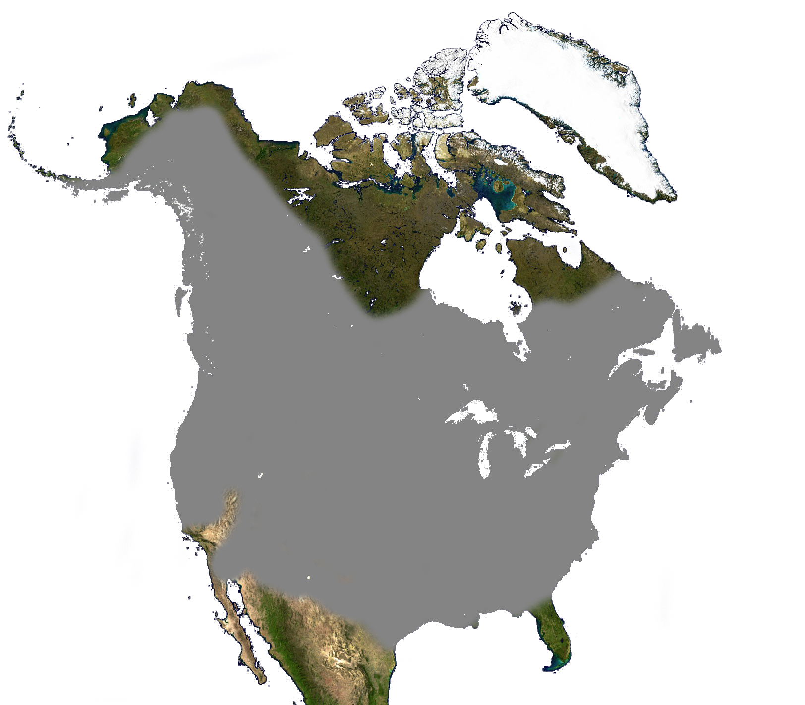 This map shows the range of Castor canandensis (Beaver) across North America.